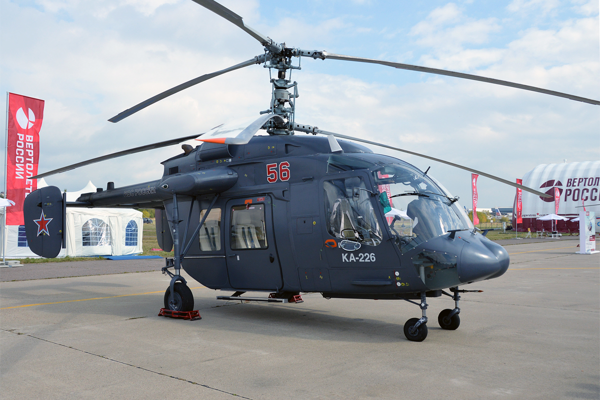 Russian Air Force, 56, Kamov Ka-226